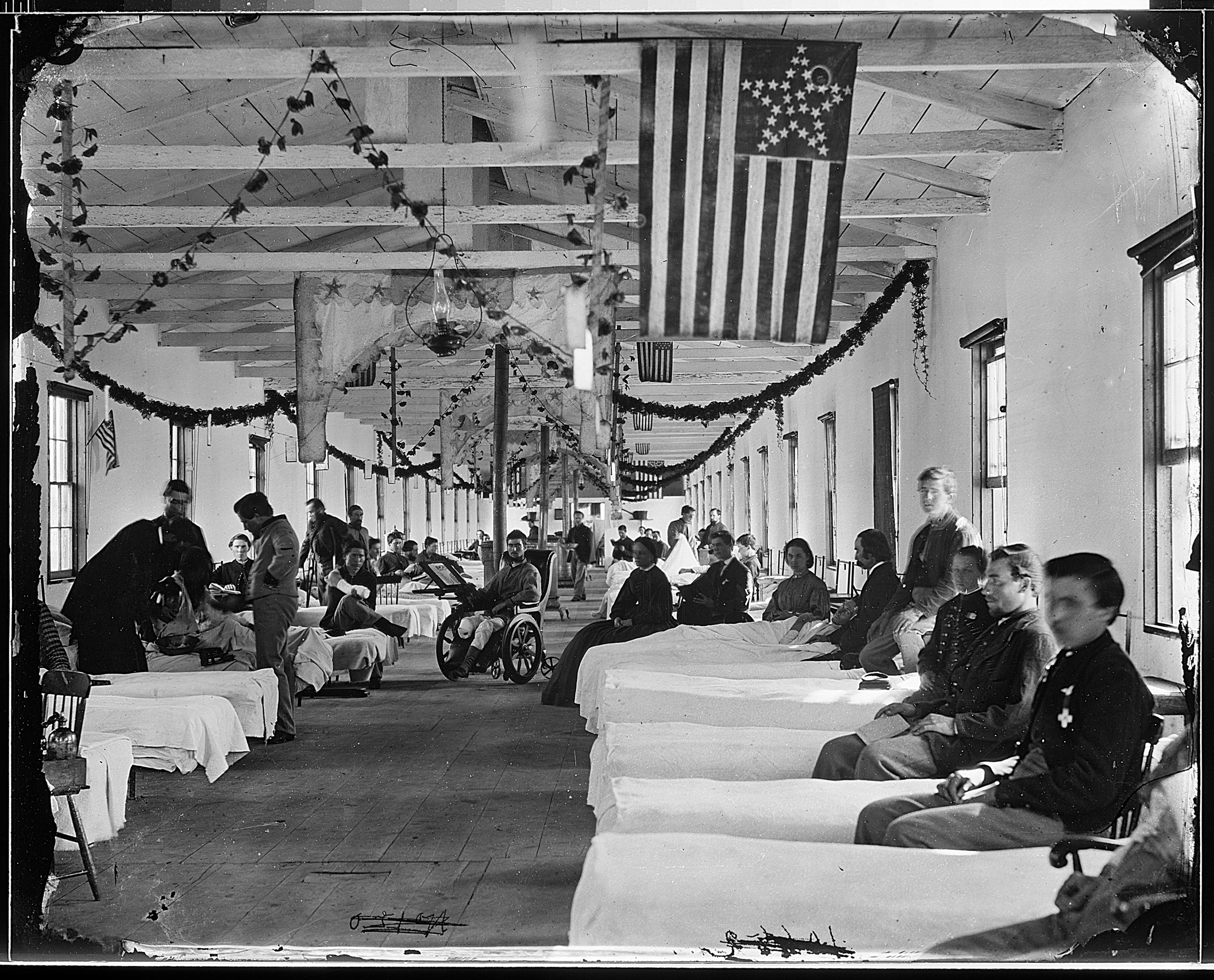 General notes: Use War and Conflict Number 219 when ordering a reproduction or requesting information about this image.